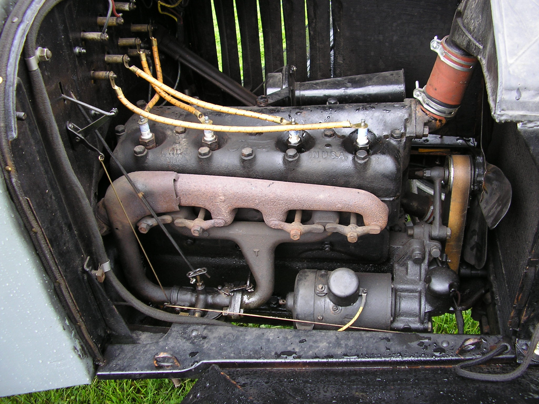 The engine in a Ford model T. Photographed by myself at Prins Bertil Memorial in Stockholm, Sweden.